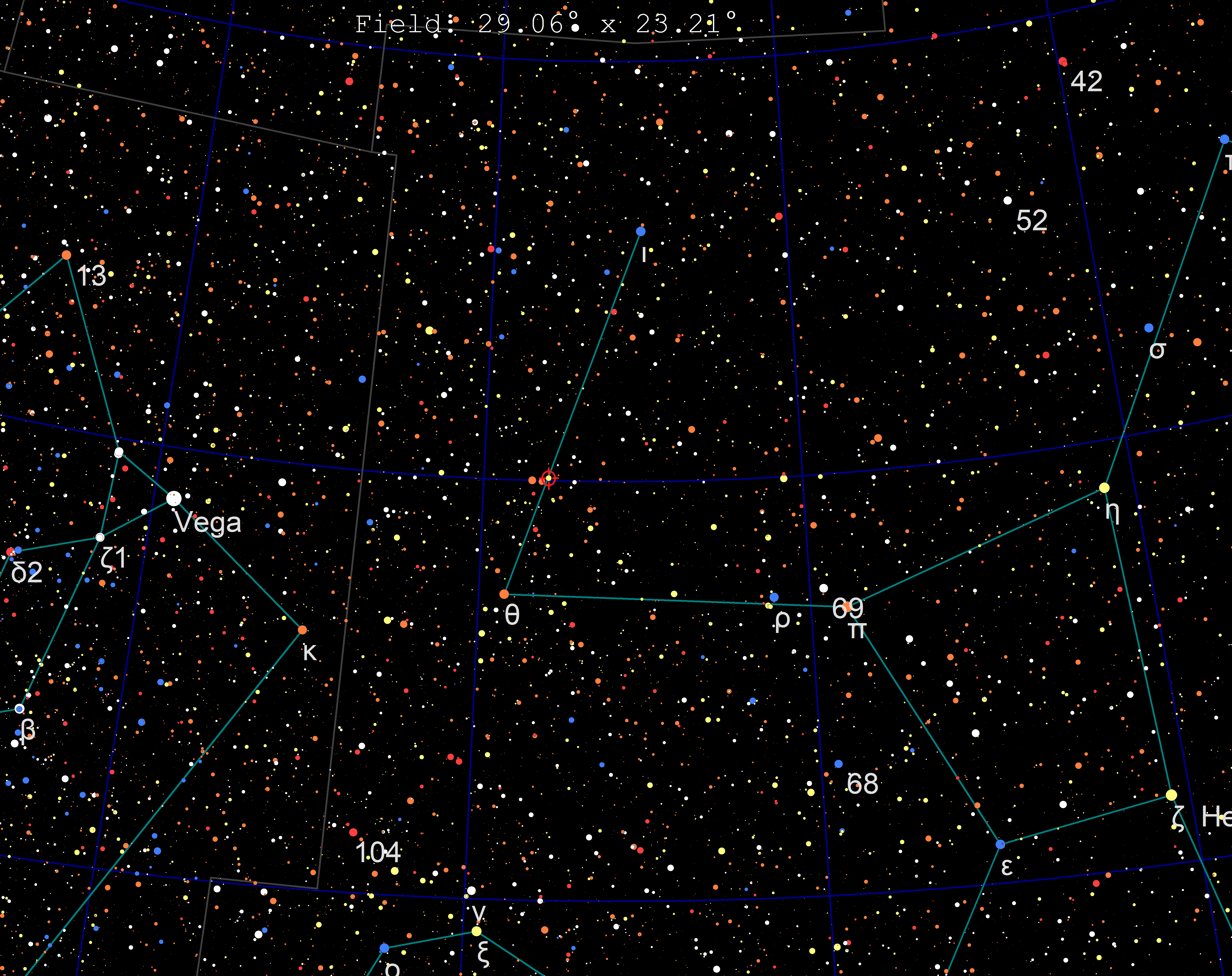 HD 162826 starmap